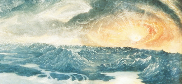 Battle of Alexander the Great against Persian King Darius